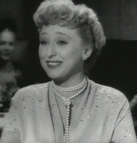 Cropped screenshot of Celeste Holm from All About Eve.